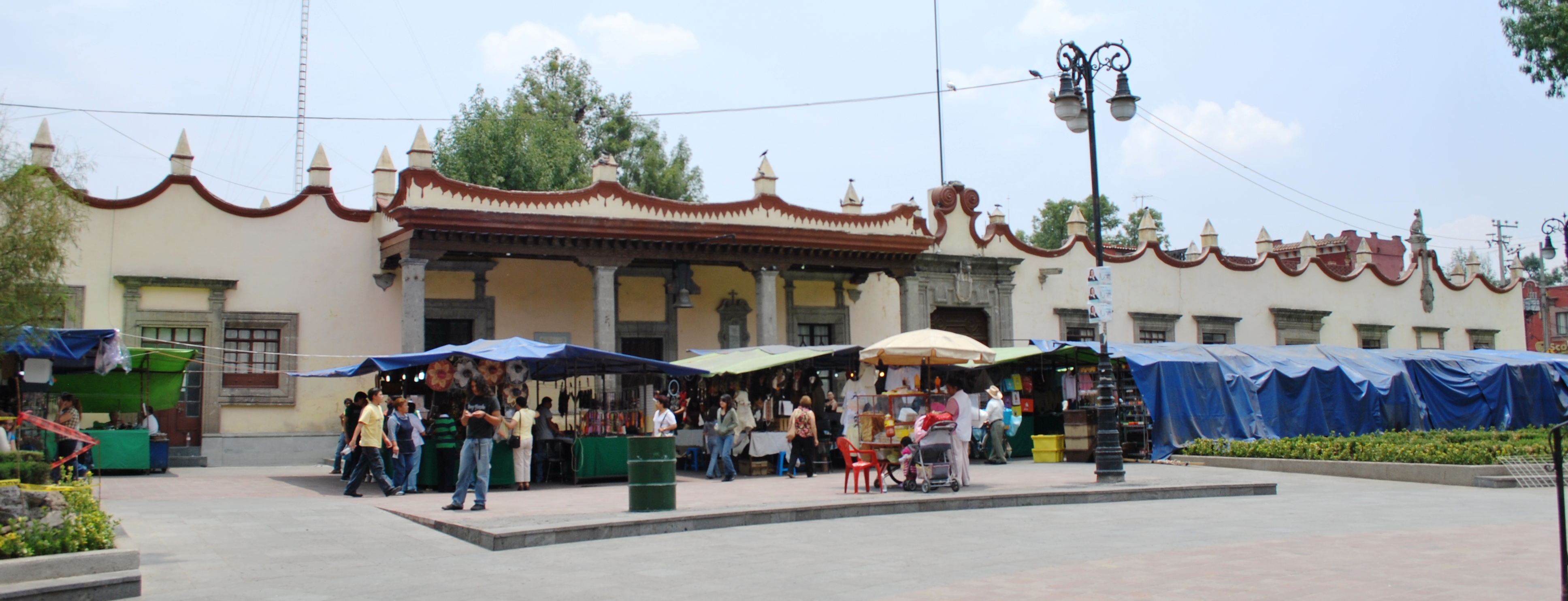 House of Hernan Cortes on Plaza Hidalgo in the Coyoacan borough in Mexico City